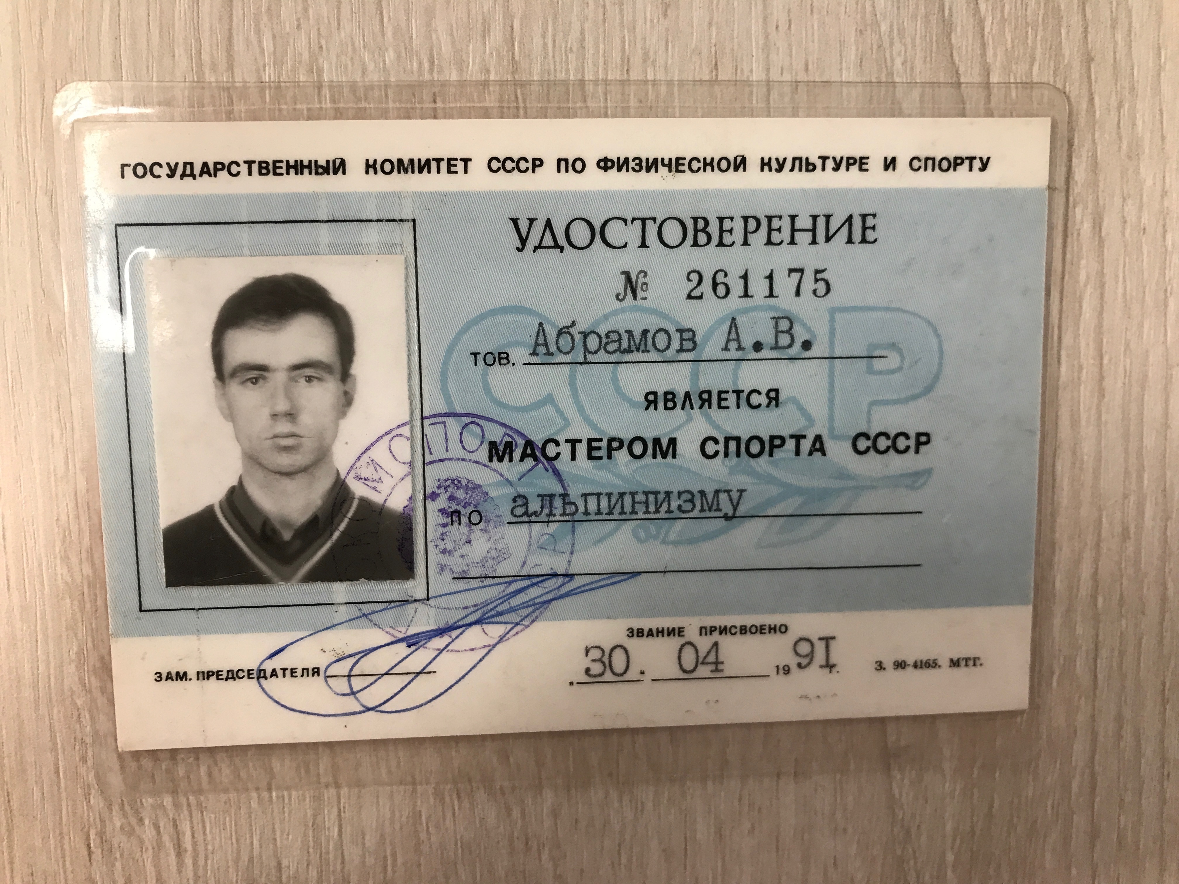 Certificate of the USSR MC on mountaineering Alex Abramov